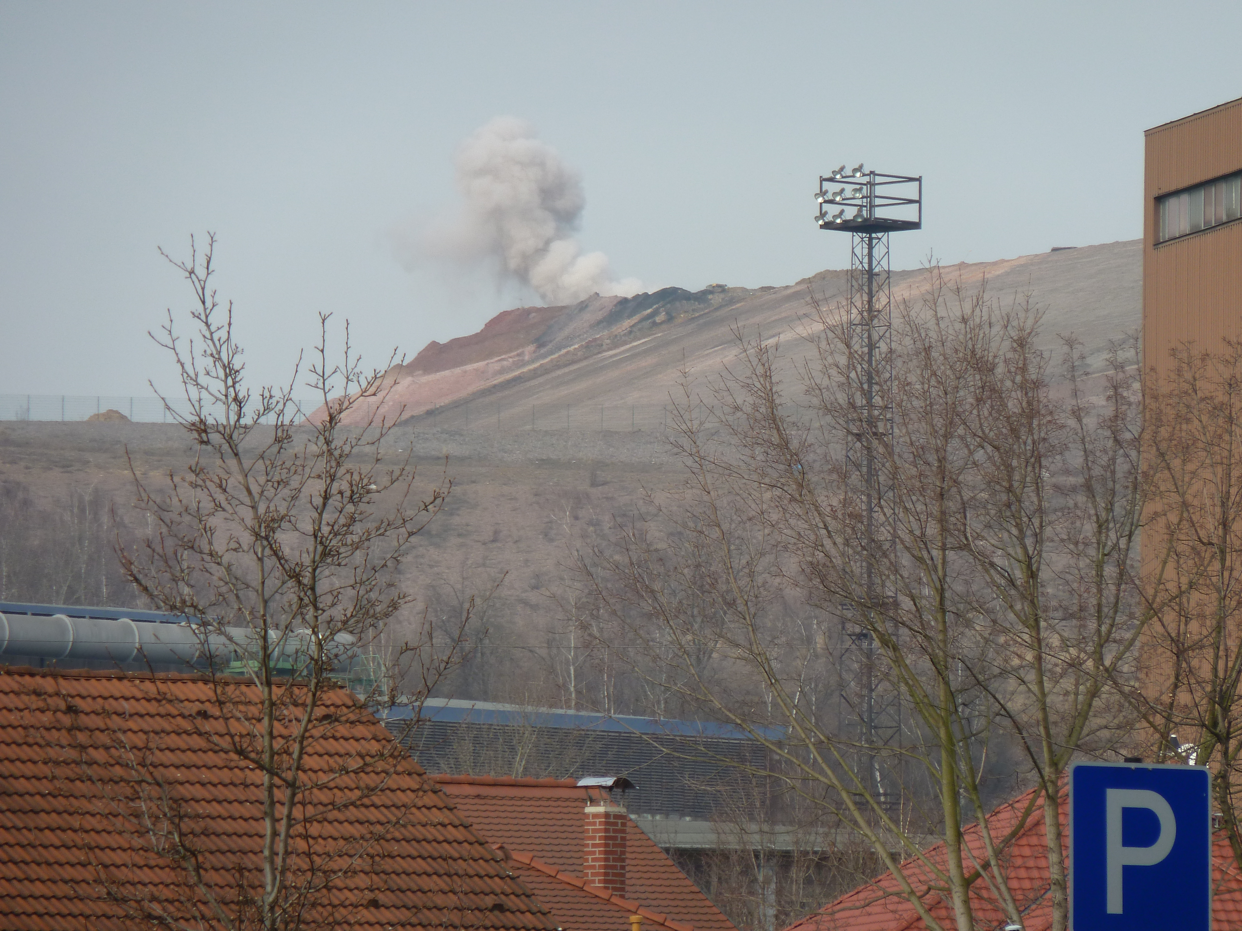 Paul-Berndt-Halde is a spoil bank for waste rock and coal flotation tailings of the Queen-Carola-Colliery (1872—1959) in Doehlen (Freital), which was renamed into Paul-Berndt-Colliery (1948—1959). Dead rock is pyrite (FeS2) which caught fire itself and set on fire the flotation tailings of the coal washer. The extent of the conflagration in early 2014 was unexpected for the experts. To fight the fire, water was sprayed, and caused the white vapour beneath the fumes.